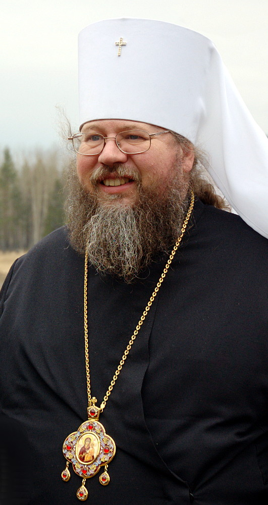 Metropolitan Jonah in the Valaam monastery. It was at the Valaam Monastery that Metropolitan Jonah received his monastic formation during the year he spent in Russia after completing theological studies at Saint Vladimir's Seminary in the early 1990's.